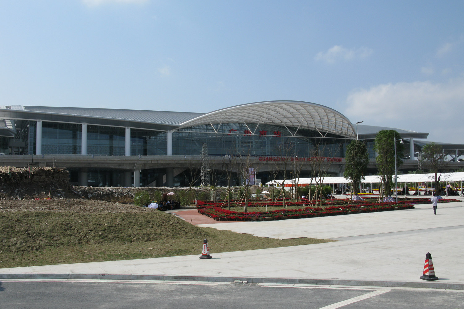 Guangzhou South Railway Station